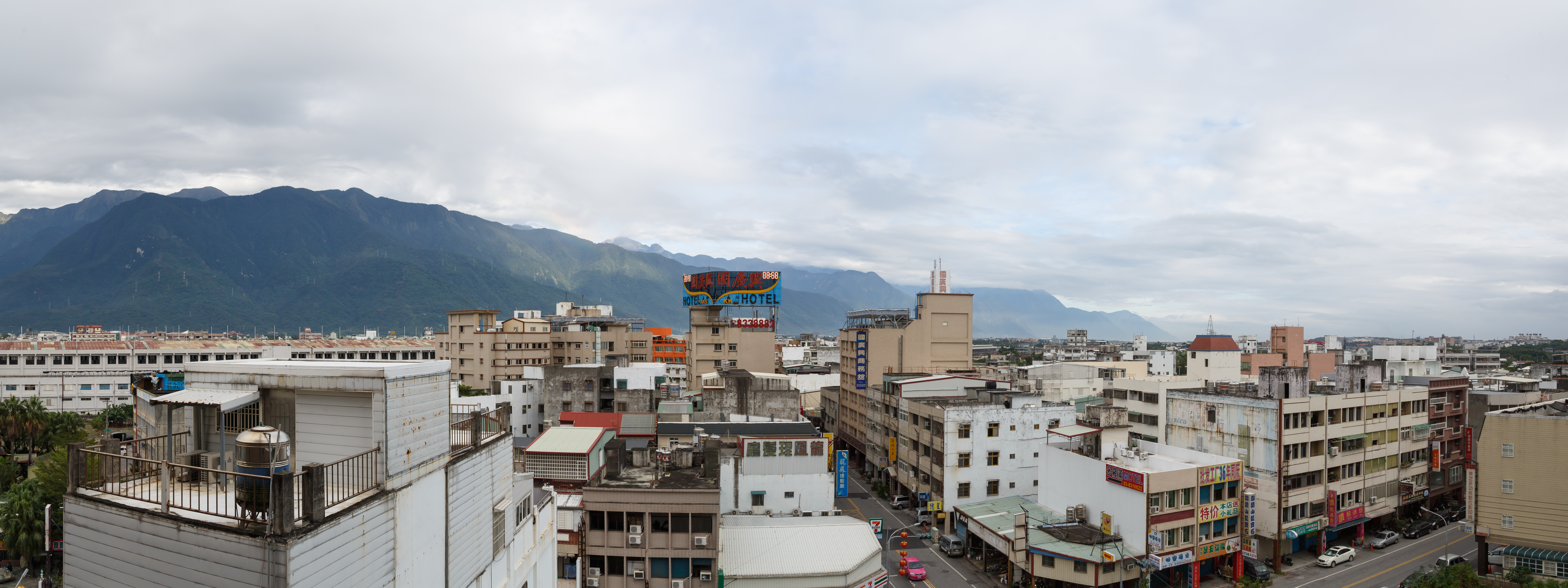 Xincheng, Hualien, Taiwan: View over Hualien City to the Mountains